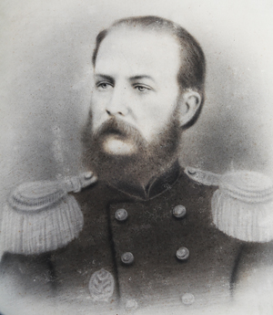 Alexander G. Anzimirov (1831 - after 1891), a nobleman, colonel of the Corps of Mining Engineers, private gold mining inspector crafts of Tomsk and the Mariinsky Regions